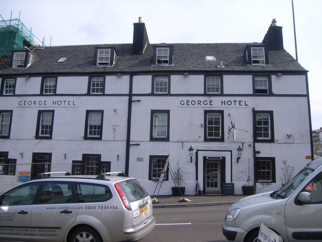 The George Hotel, Inveraray